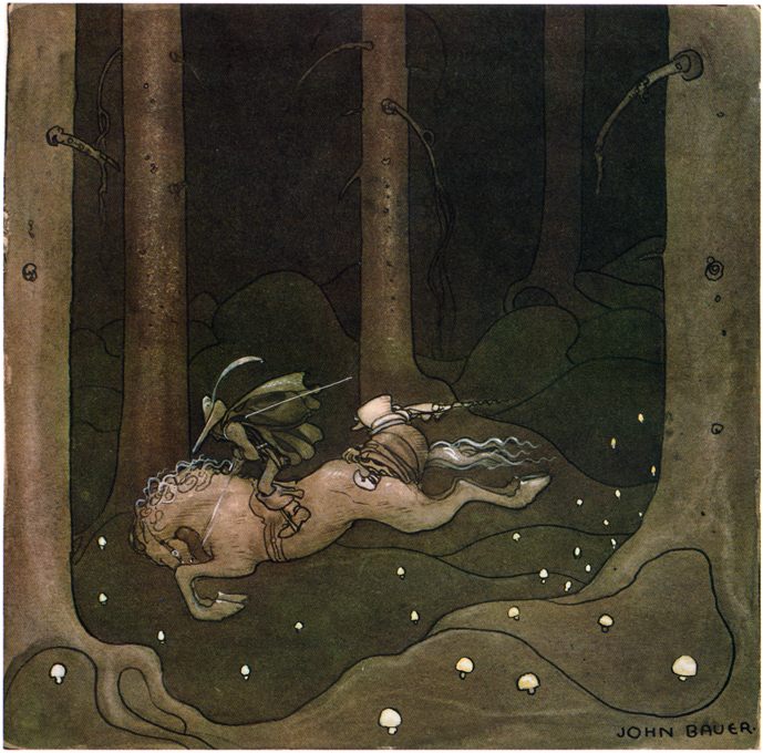 Illustration for "Trollritten" (The magic ride) by Anna Wahlenberg in "Bland tomtar och troll" (Among gnomes and trolls), 1910.